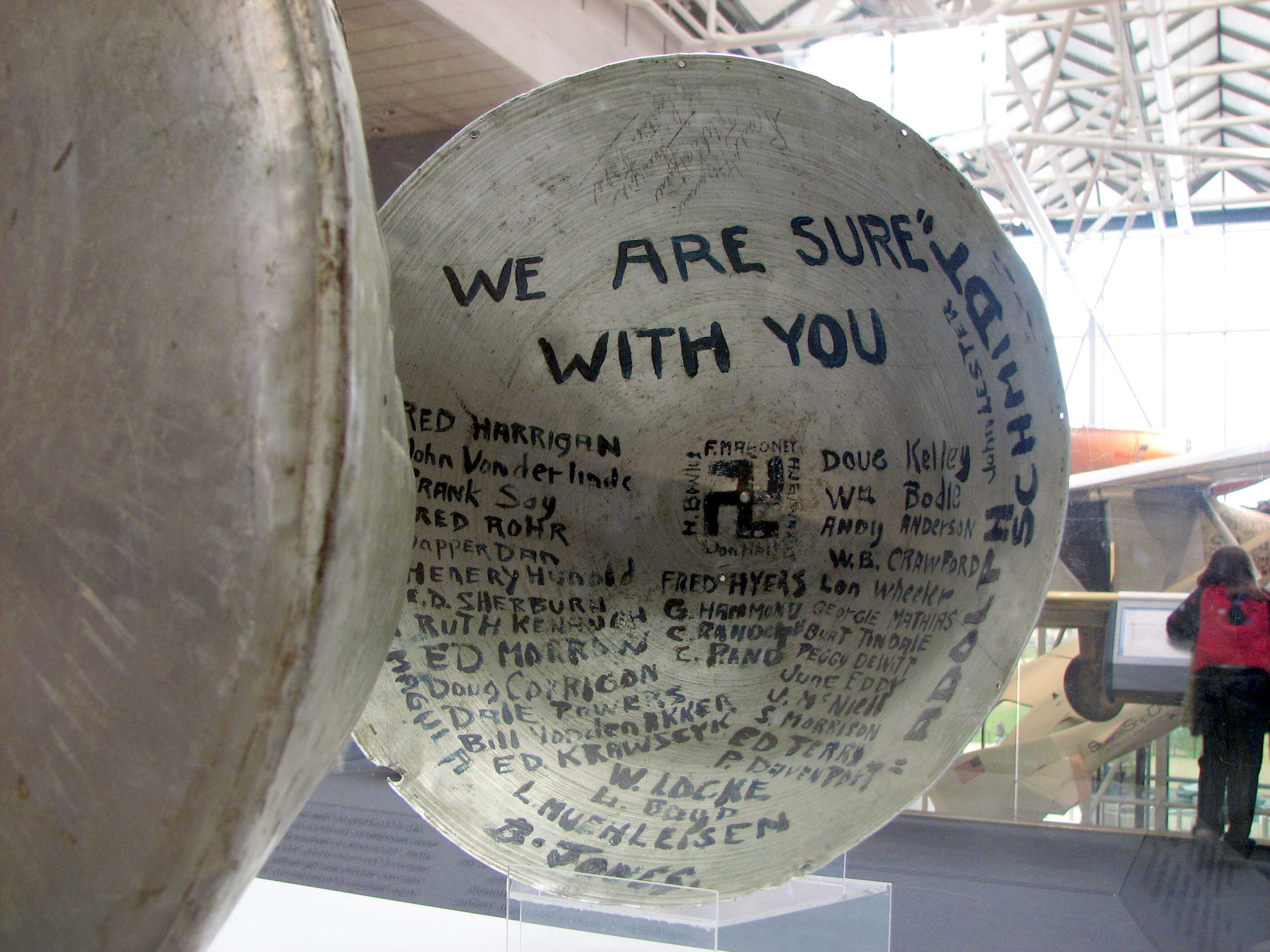 Inside of the original propeller spinner of the Spirit of St. Louis